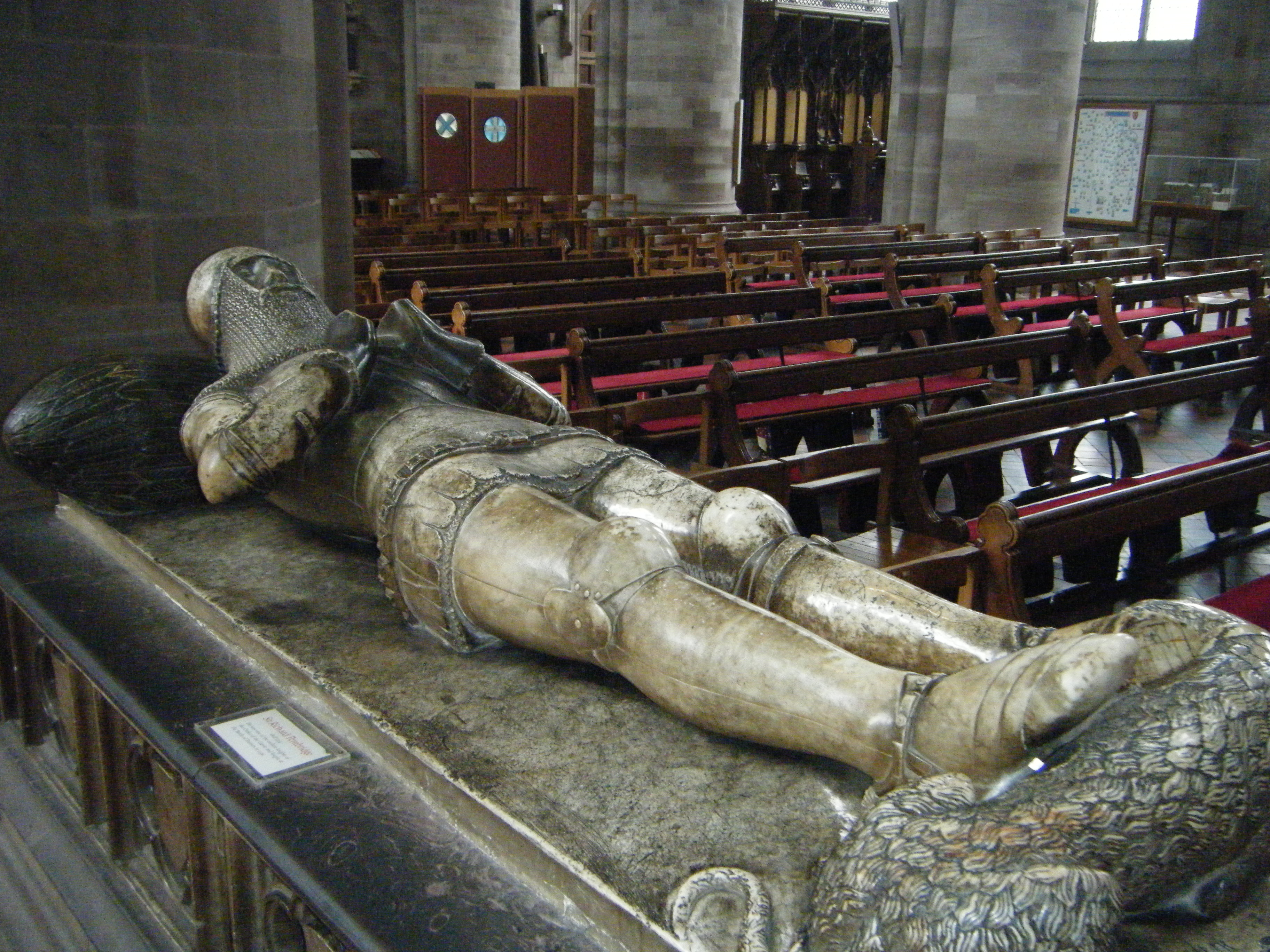 The Tomb of Sir Richard Pembridge (died 1375), one of the earliest Knights of the Garter who fought at the Battle of Poitiers 1356; at Hereford Cathedral, 06/12.